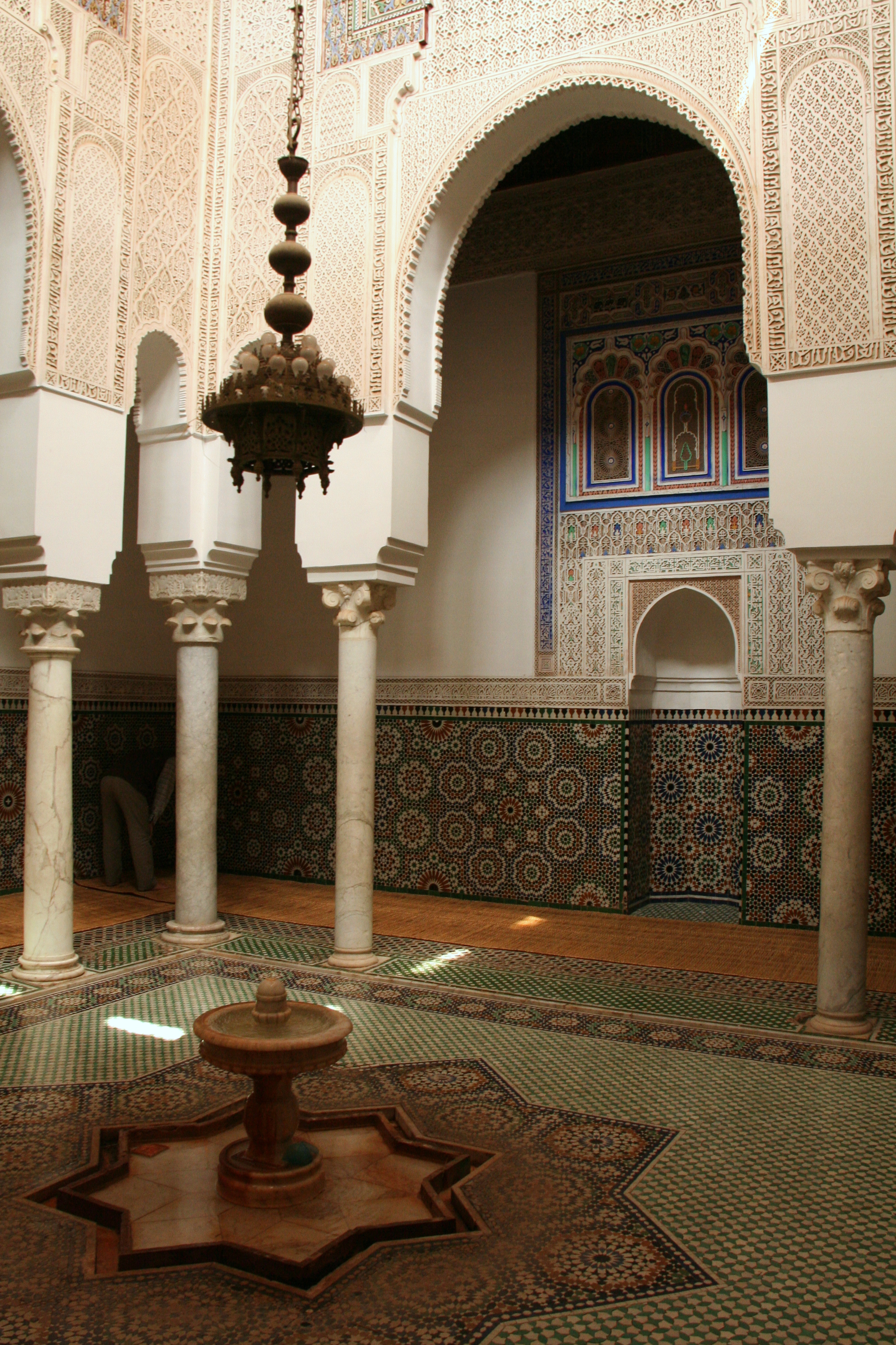 Mausoleum of Moulay Ismail, patio